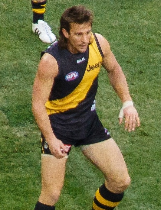 Kamdyn McIntosh of Richmond FC kicks while playing against Fremantle FC